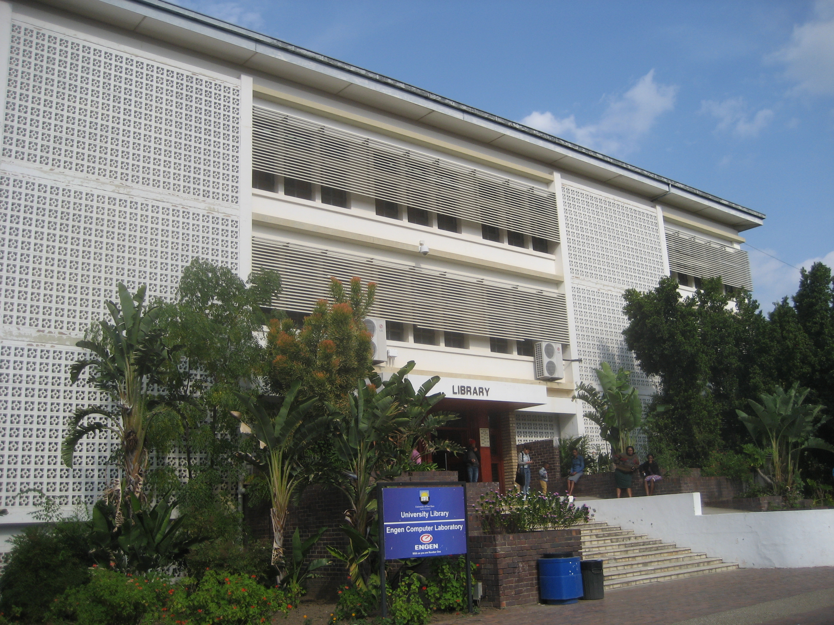 University Library, University of Fort Hare (South Africa)